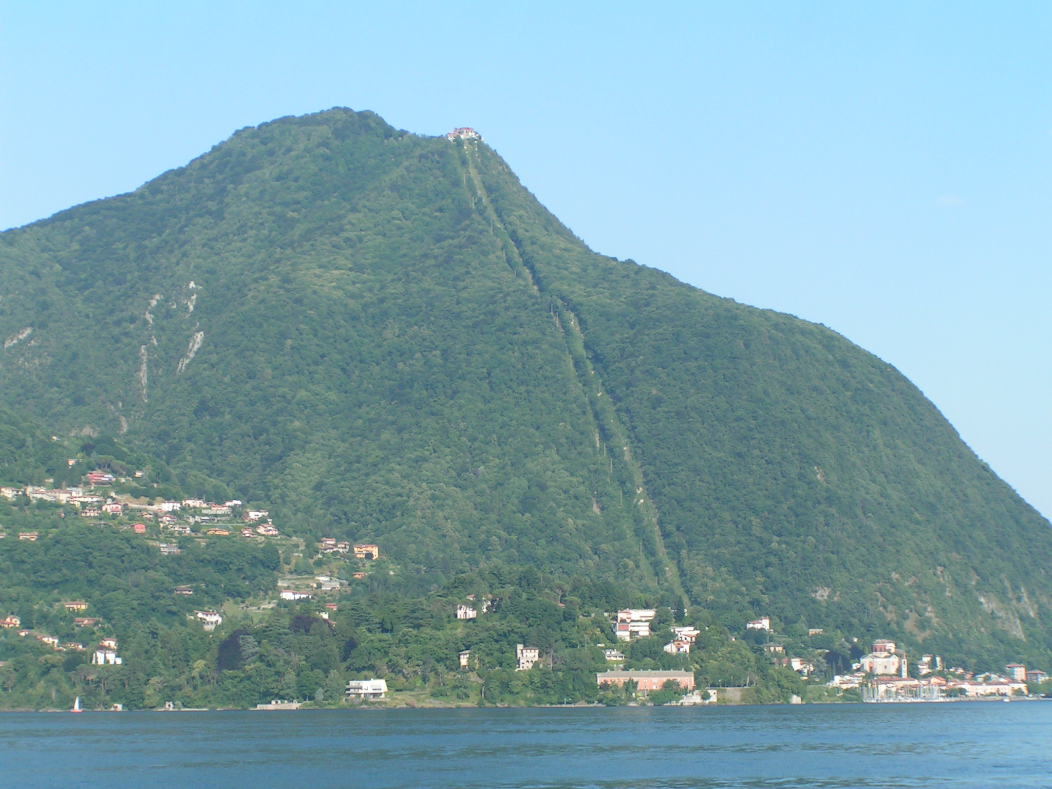 Lago Maggiore, Laveno-Mombello and Sasso del Ferro